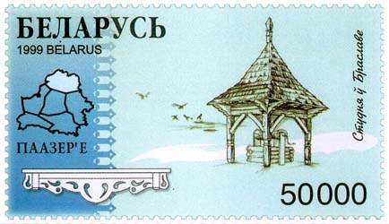 Stamp of Belarus